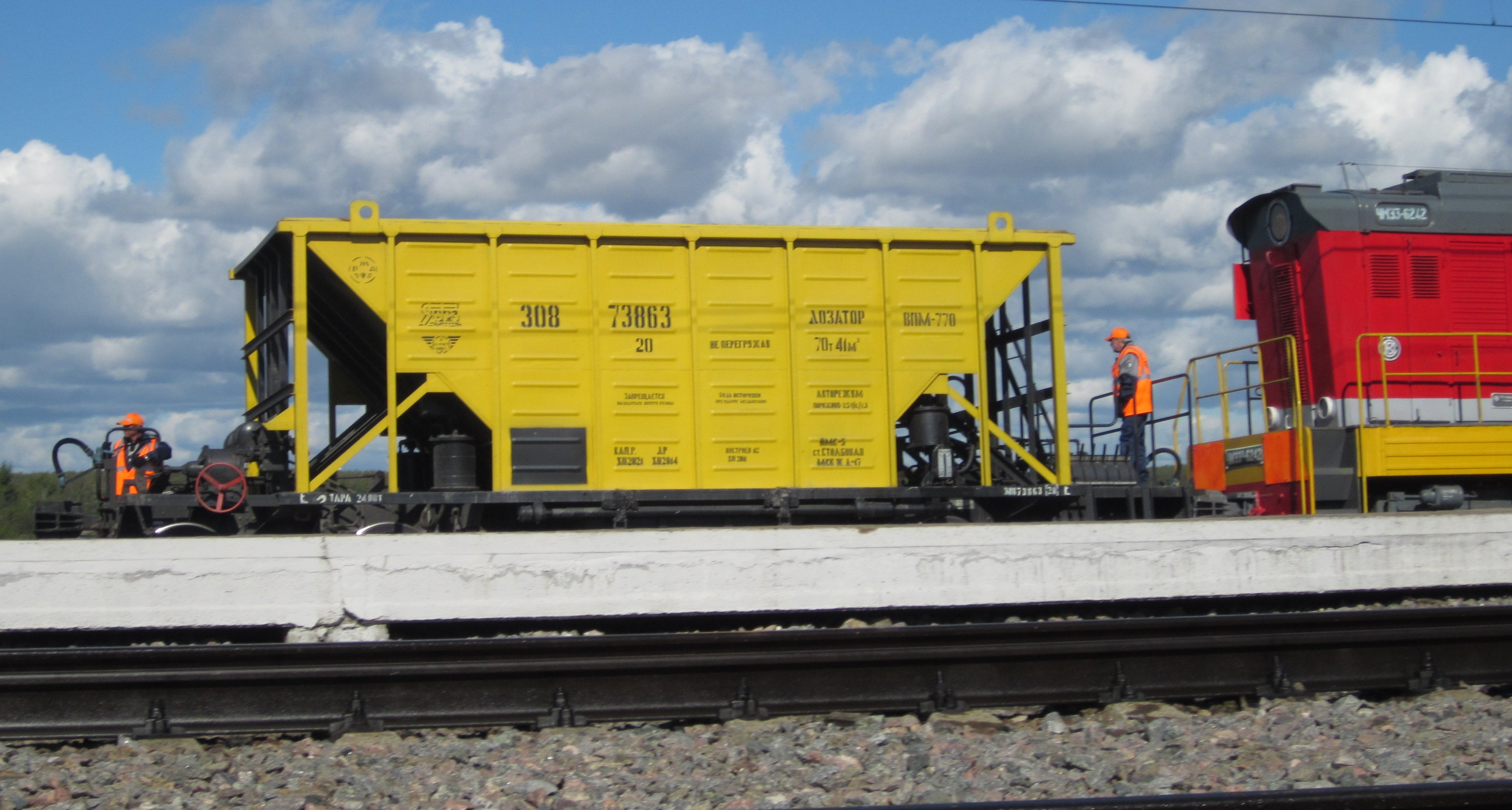 Shunting at train test ring railway in Scherbinka. The diesel locomotive ChME3e-6242 pushes a hopper railcar with rail workers.